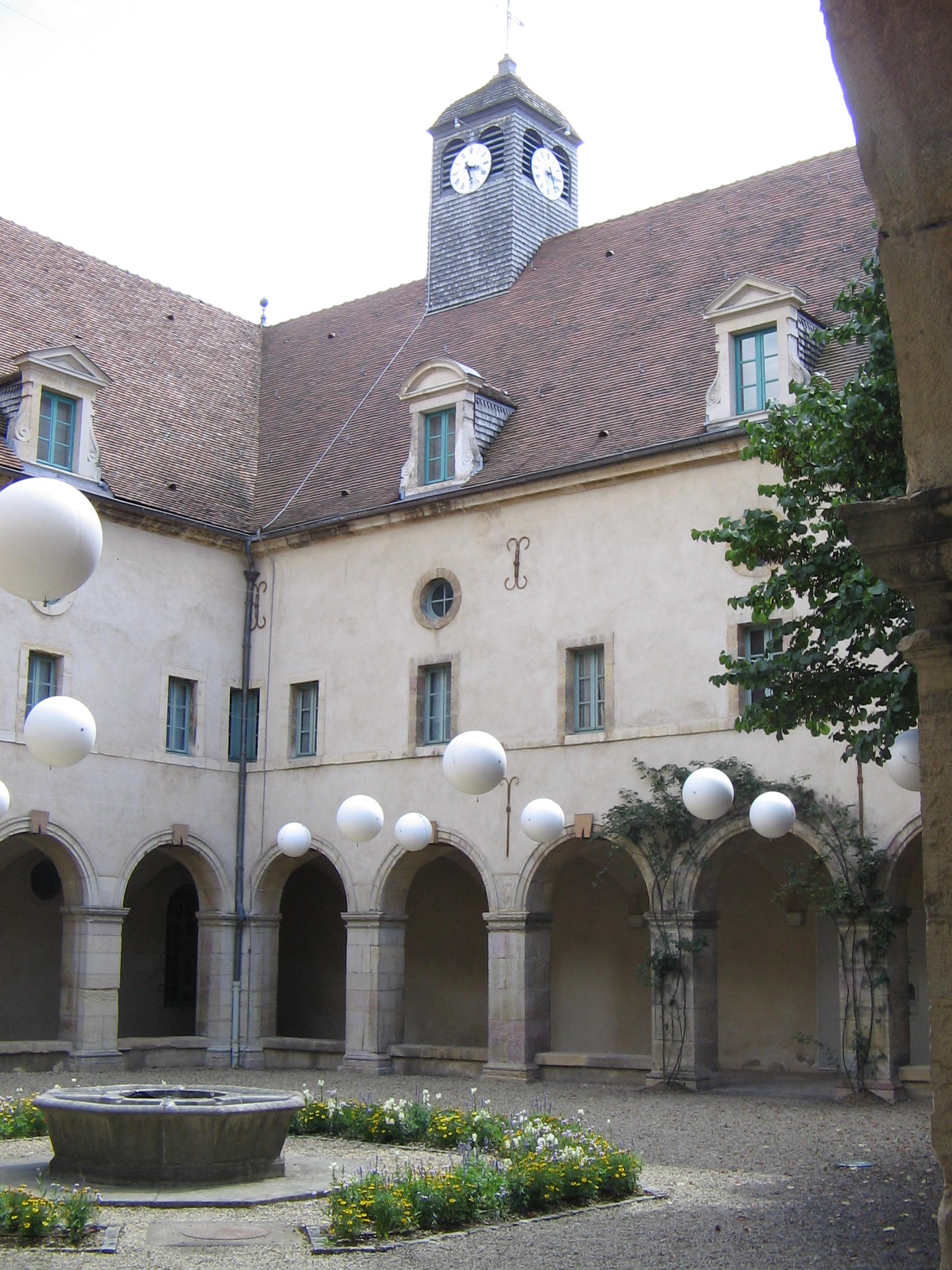 Dijon : Bernardines covent. The building now hosts a museum which focuses on the everyday life in Burgundy during the XIXth and ealry XXth centuries.